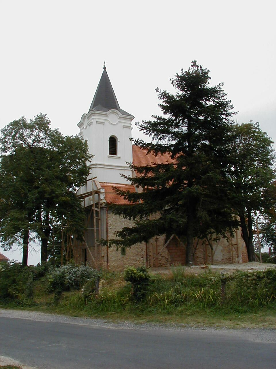 Bakonyszentlászló, lutheran church This is a photo of a monument in Hungary, Identifier: 9622